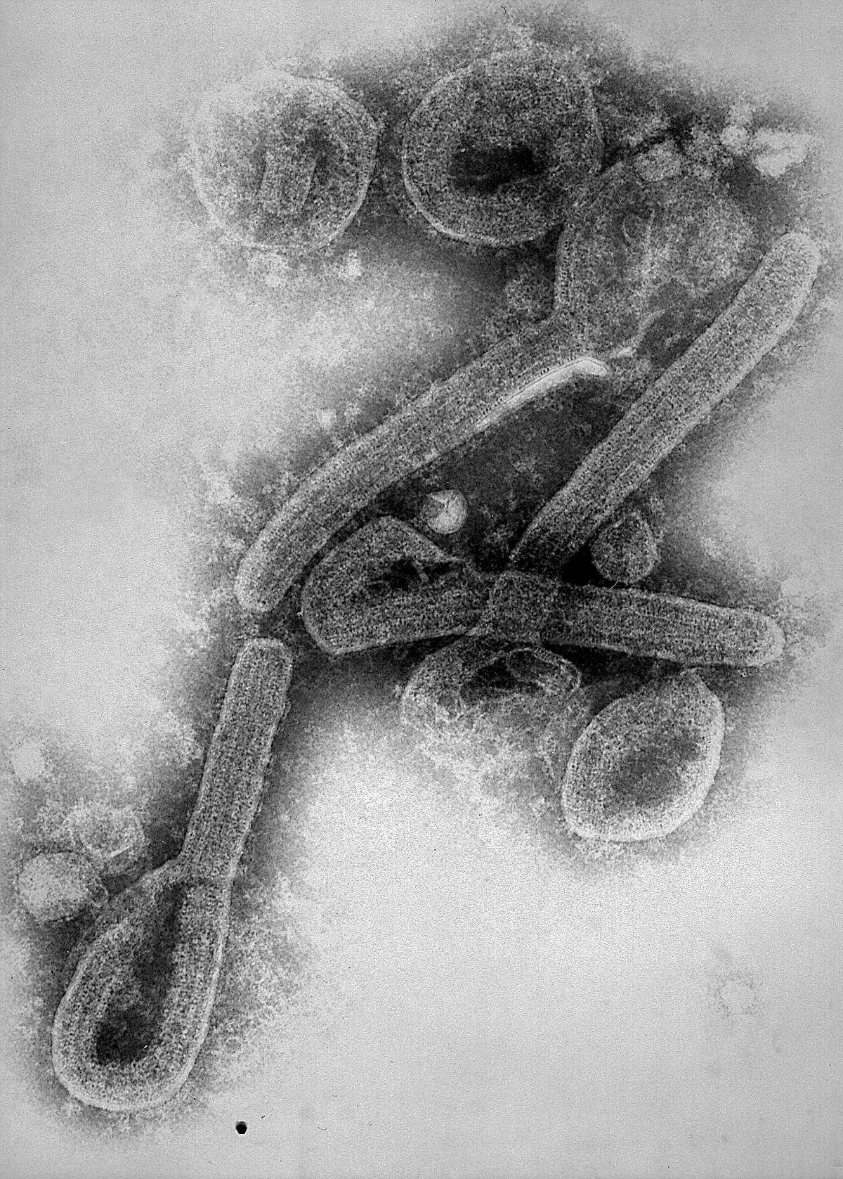 Electron micrograph of the Marburg virus. Marburg virus, first recognized in 1967, causes a severe type of hemorrhagic fever, which affects humans, as well as non-human primates.